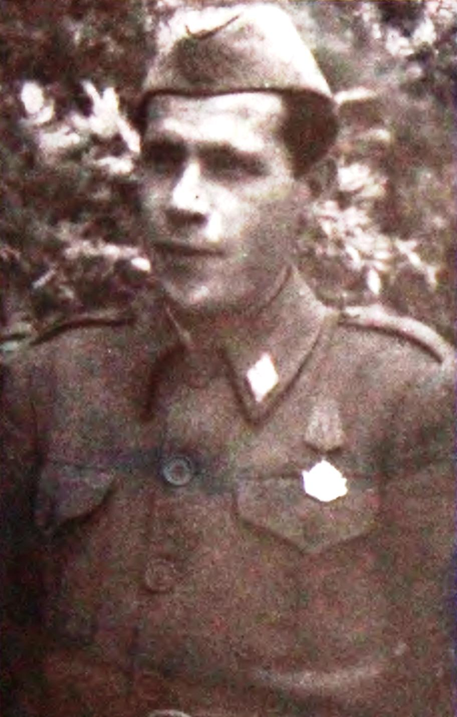 Stane Bobnar (1912-1996)